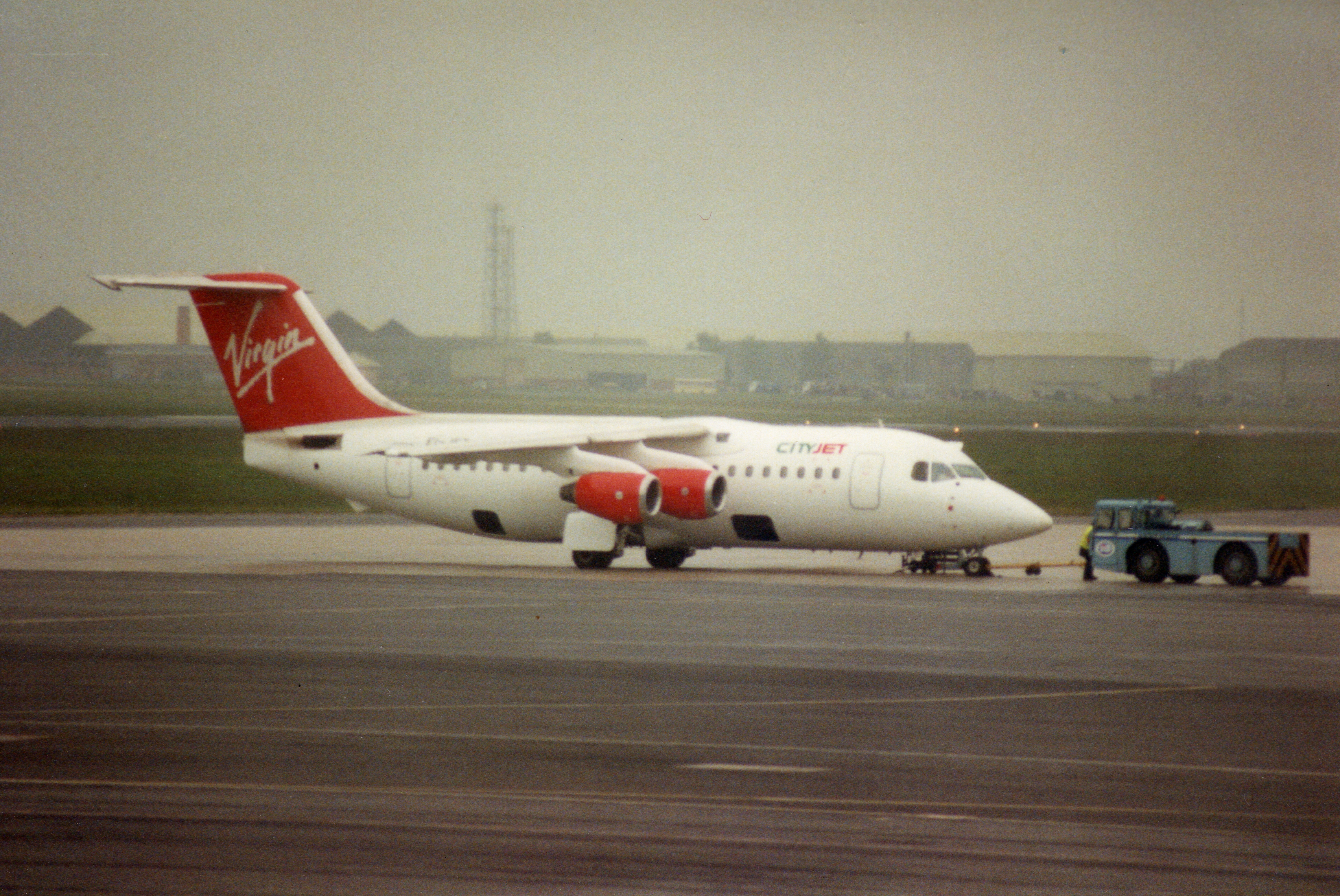 CityJet BAe146 aircraft, Belfast International Airport, Aldergrove, County Antrim, Northern Ireland, May 1994